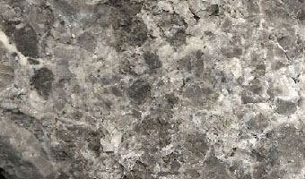 Sedimentary dolostone breccia Pružina, Strážovské vrchy, Slovakia